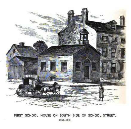 Boston Latin School House 1748-1810 on School Street Boston MA.